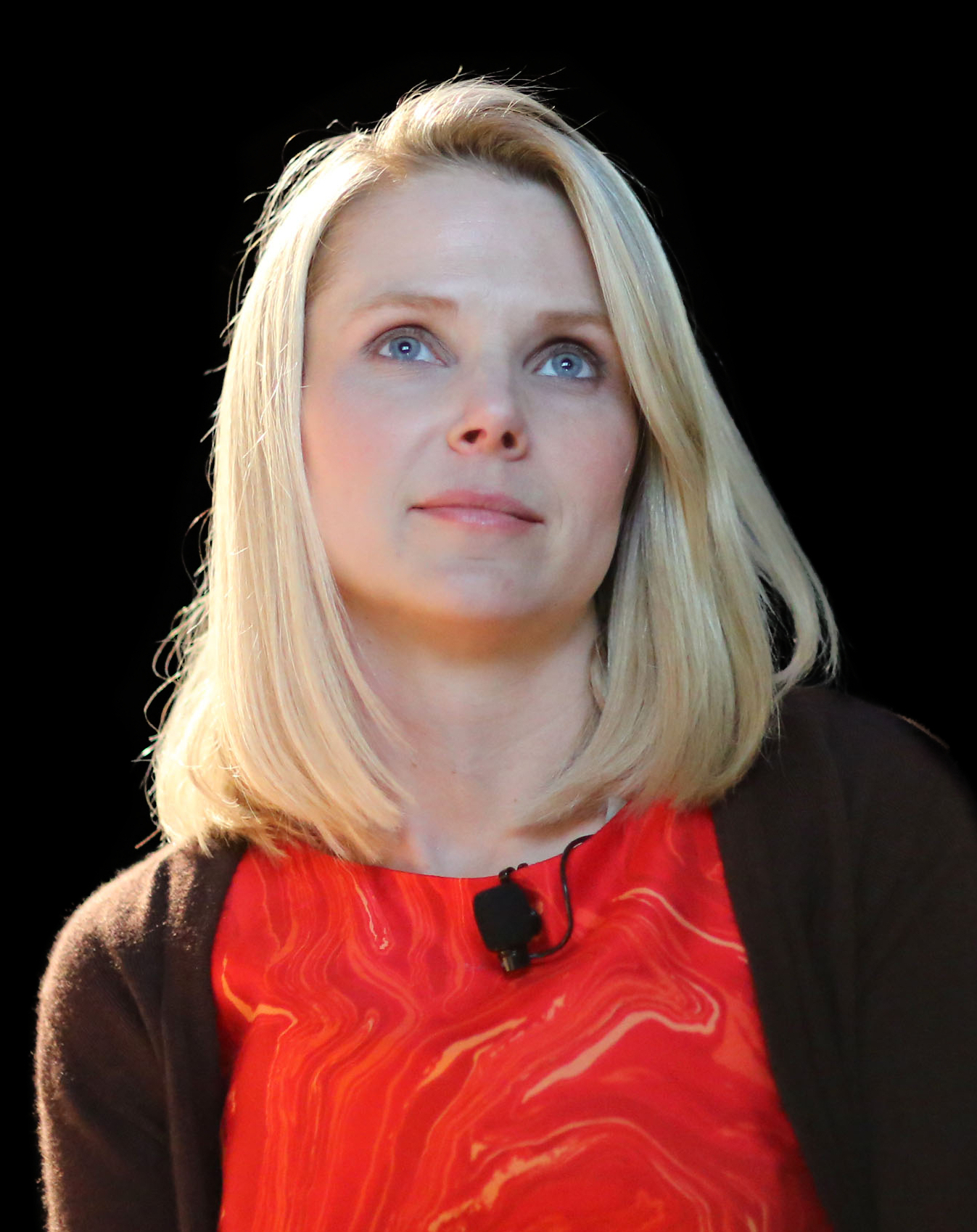 Techcrunch Disrupt SF 2013. Photo by Max Morse for Techrunch.